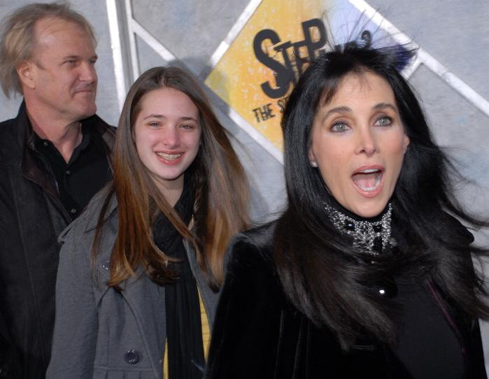 John Tesh, Connie Sellecca and their daughter Prima at the premiere of the film Step Up 2 The Streets